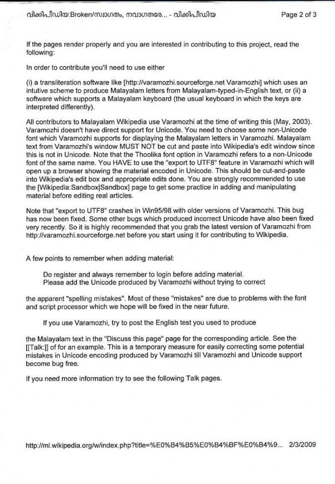 മലയാളം വിക്കിപീഡിയയുടെ തുടക്കം ഇങ്ങനെ പേജ് 2